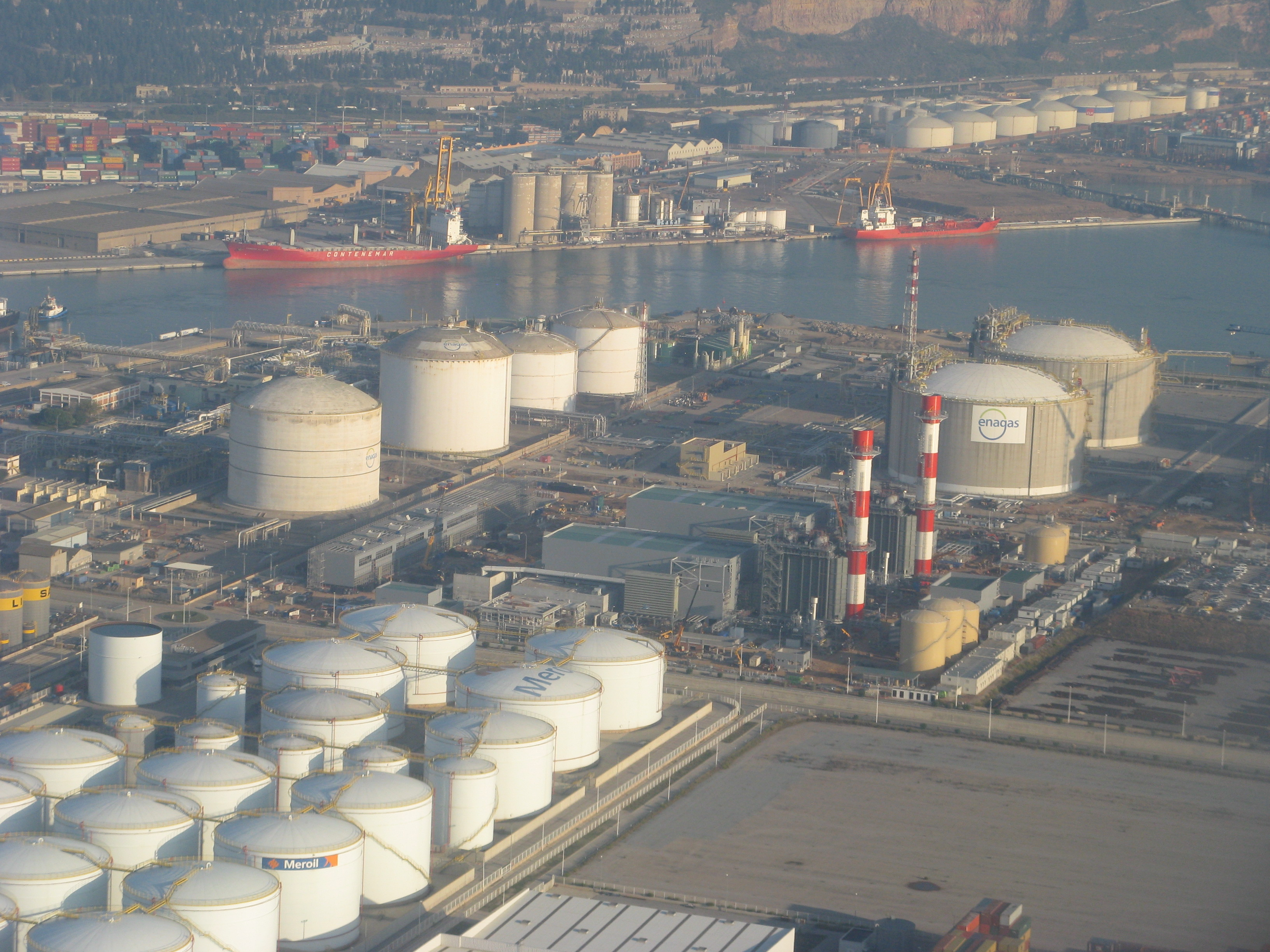 Barcelona, port from aeroplane